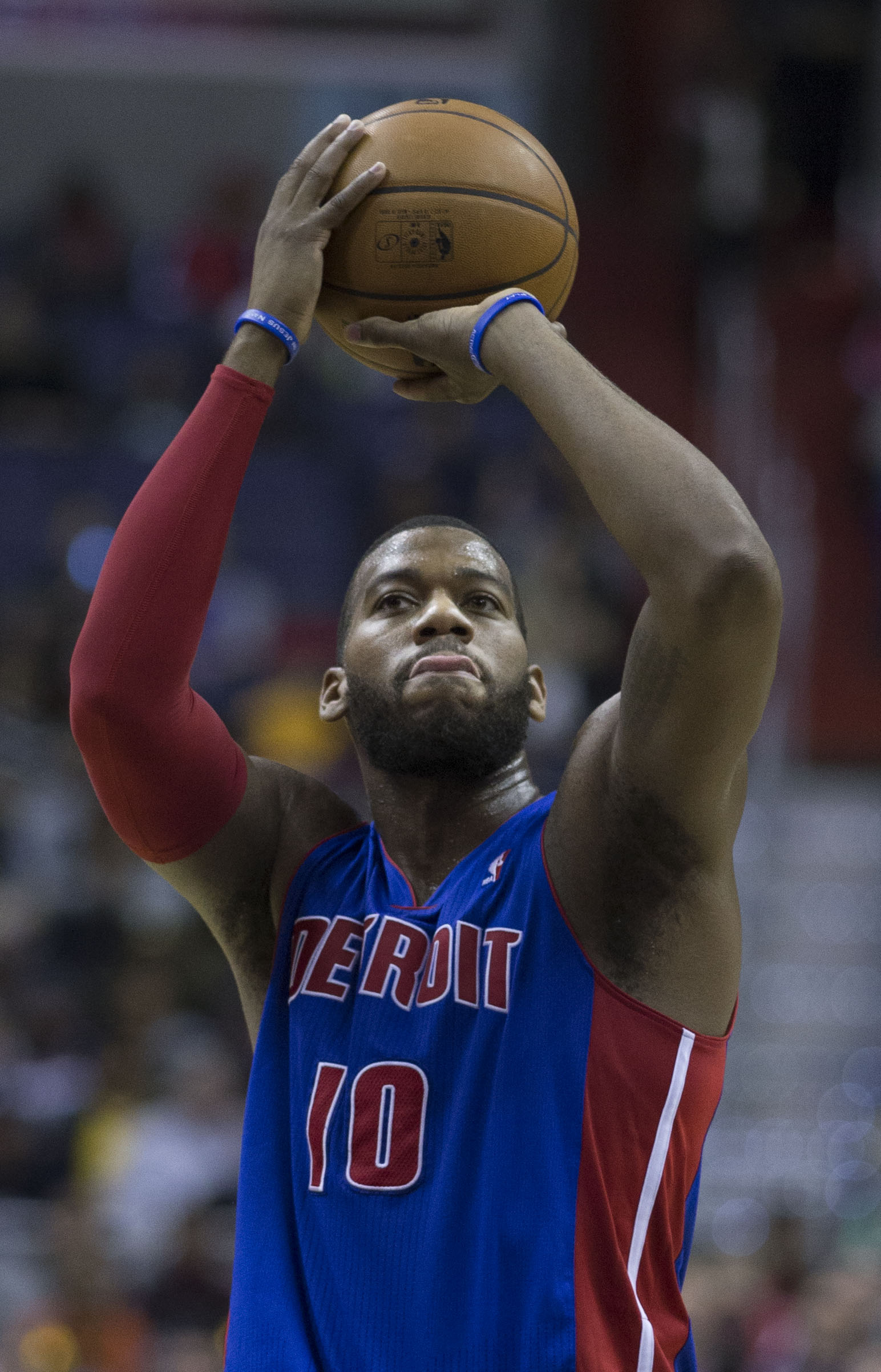 Pistons at Wizards 1/18/14